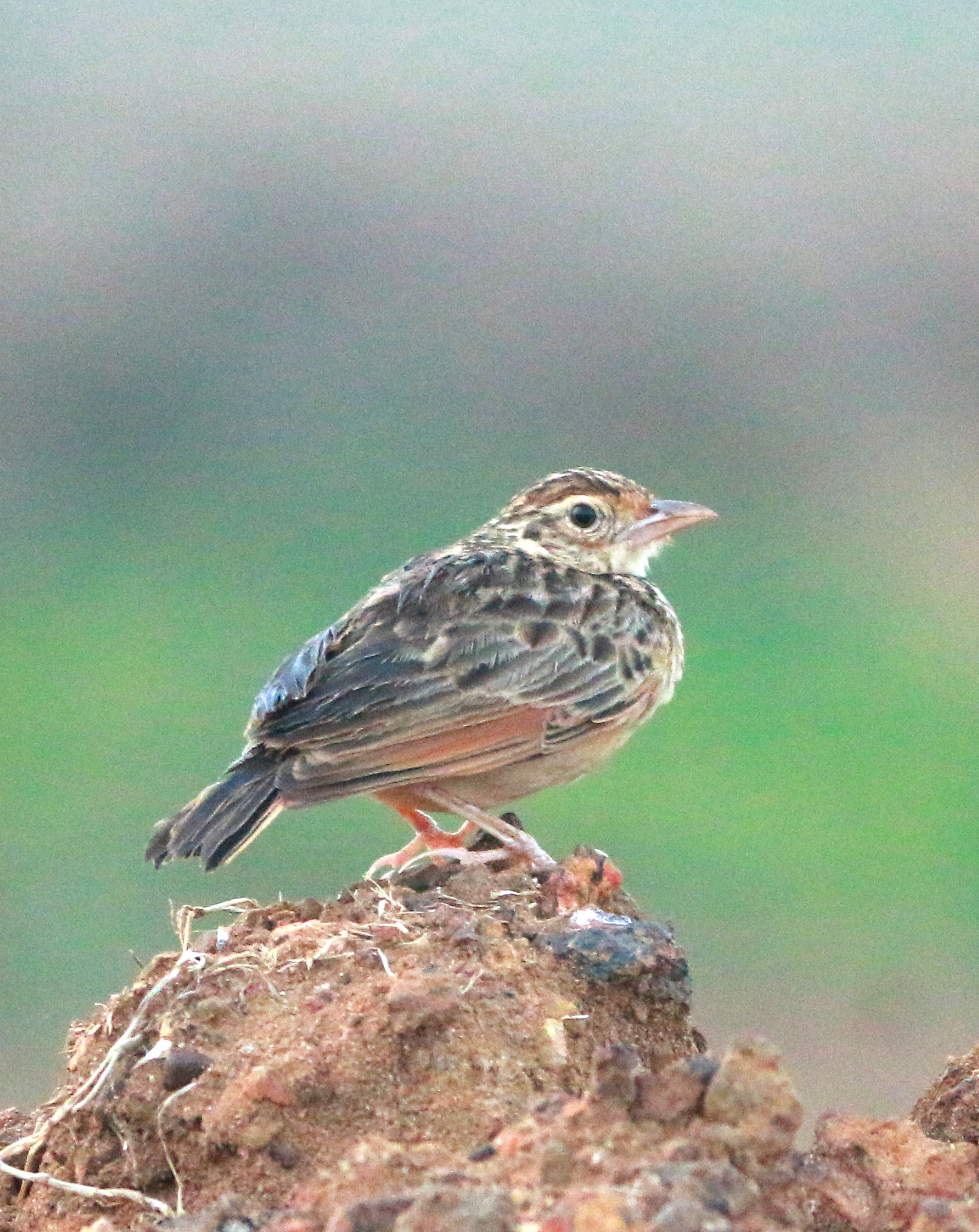 Jerdon's bush lark